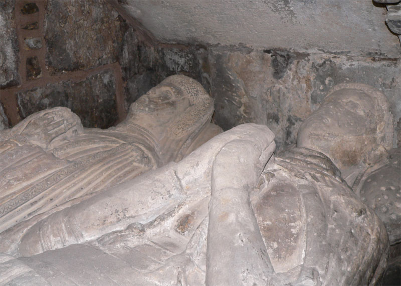 St Bride's Church, Douglas (Scotland) - effigy of James the Gross, 7th earl of Douglas